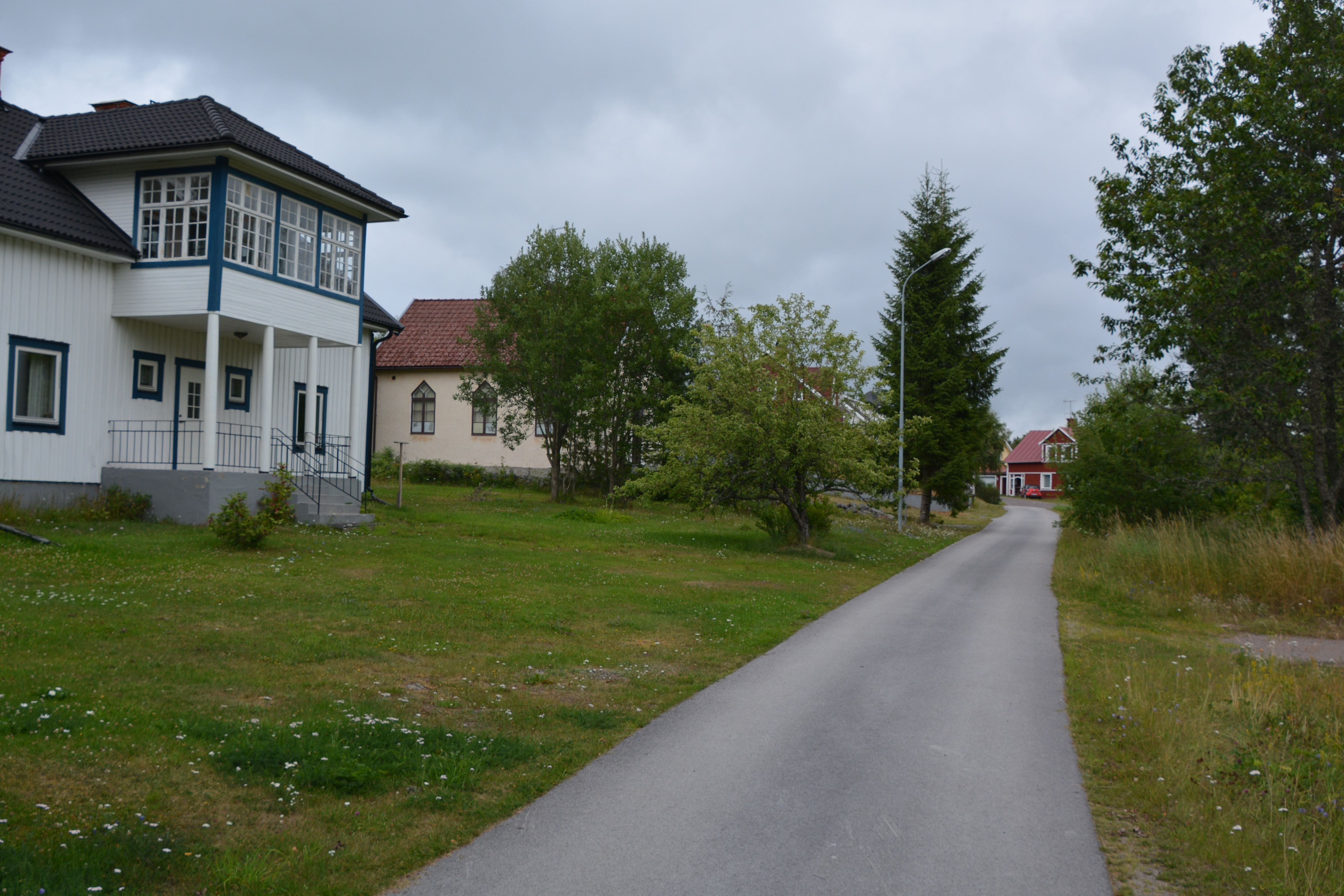 Triabo huvudgata norrut